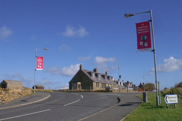 Digital TV is coming: Baltasound These signs, telling of the onset of the switch-off of analogue TV signals next May, look rather out of place in Baltasound and were put up on Sunday morning. The houses in the background are Springpark Road. One only lasted a month and ended up taking the lamp-post with it 1549326.